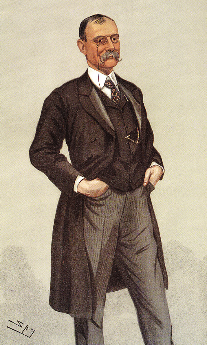 Vanity Fair caricature of Sir Frederick Treves, 1st Baronet. ID: M 0784 Issue: 1655 Caption: Freddie Subject: Sir F Treves Caricaturist: Spy